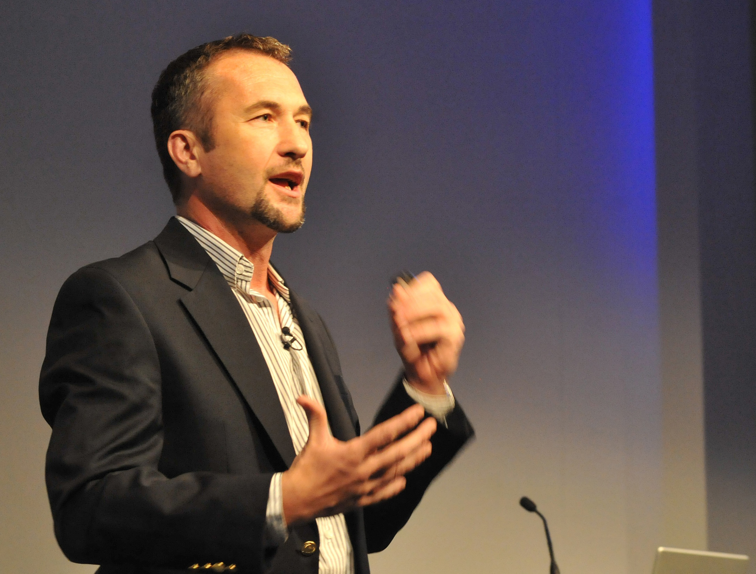 Adventurer Jason Lewis giving a motivational talk at a business conference in London, UK.